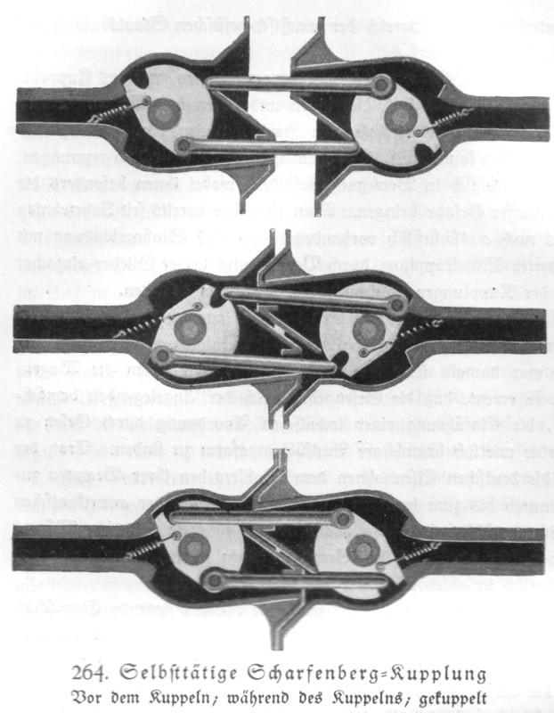 Scharfenberg coupler (drawing) — automatic coupler system for railroad purpose